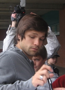 The Brazilian football player Diego Ribas da Cunha (known as Diego), playing for the German Bundesliga club SV Werder Bremen, signing autographs.